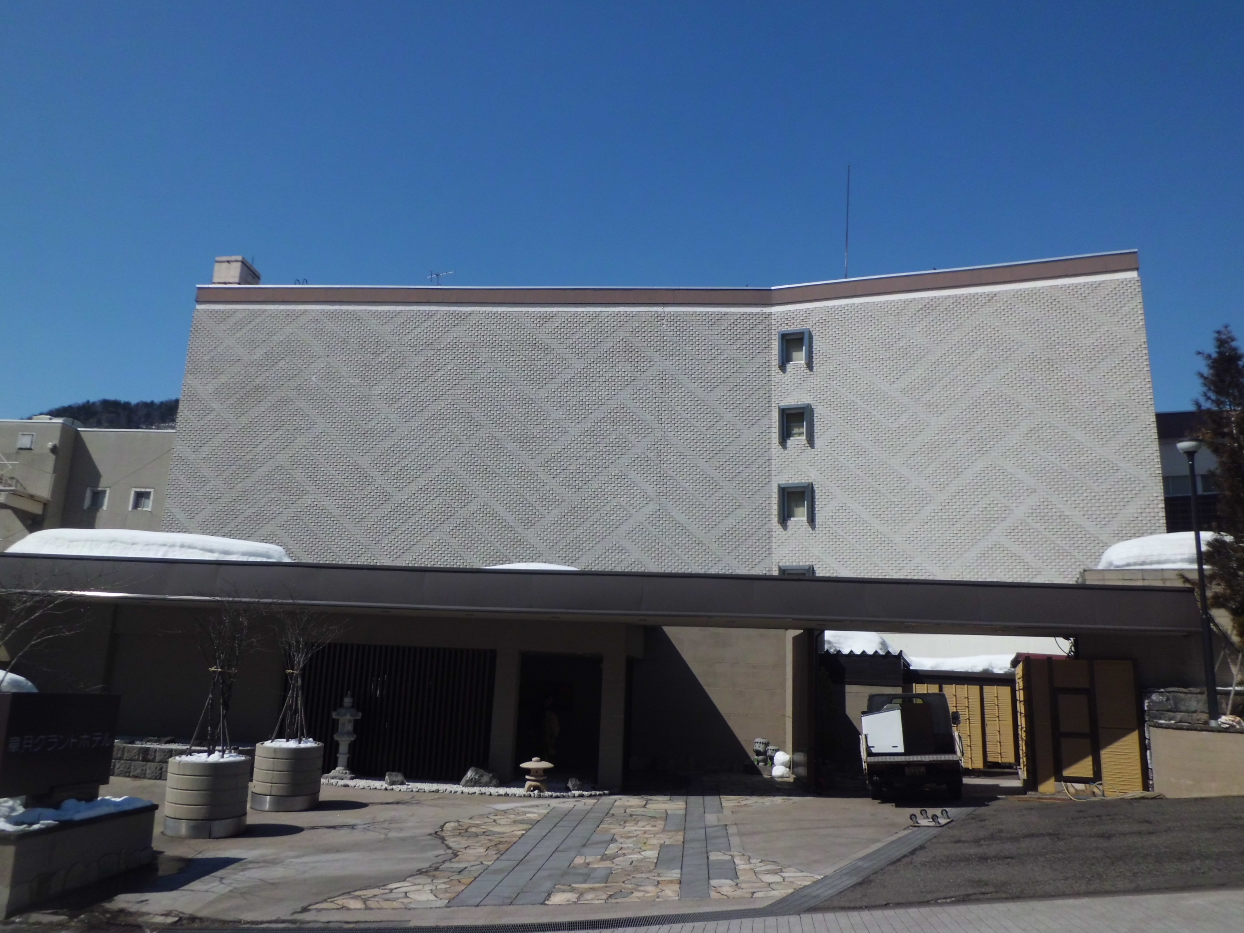 Shogetsu Grand Hotel